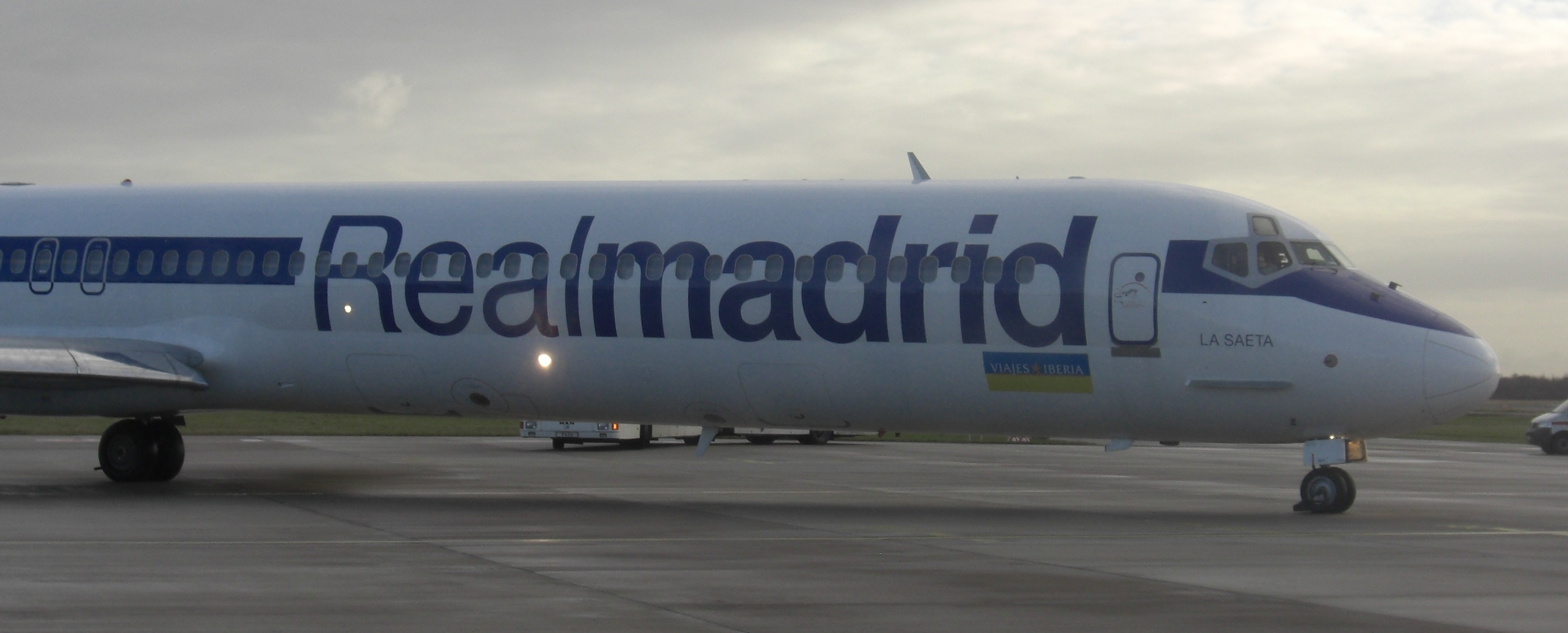 Champions League-Match Werder Bremen - Real Madrid 2:3